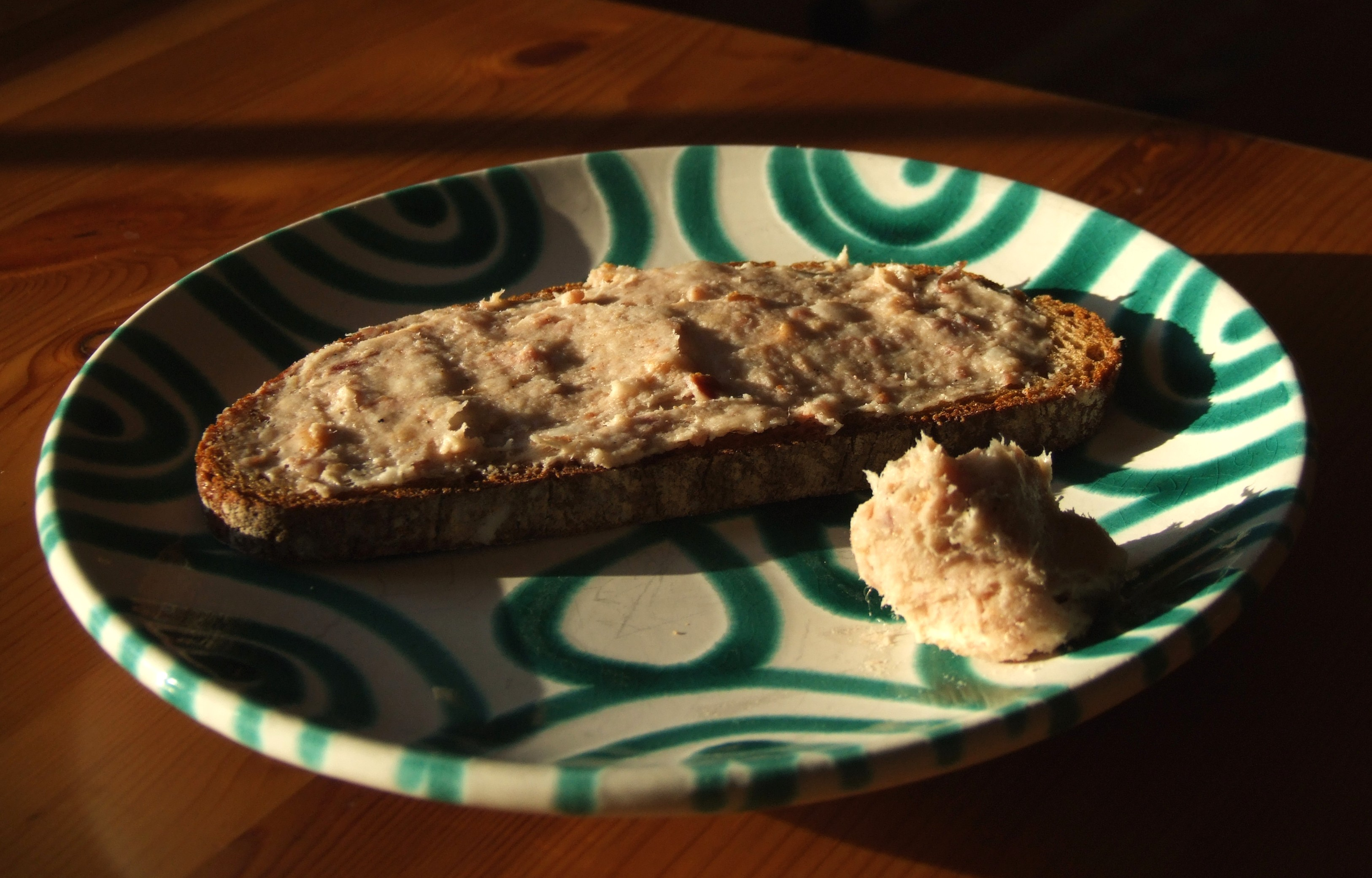 Verhackert (Austrian spread made of minced bacon) on brown bread